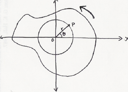 I made this page